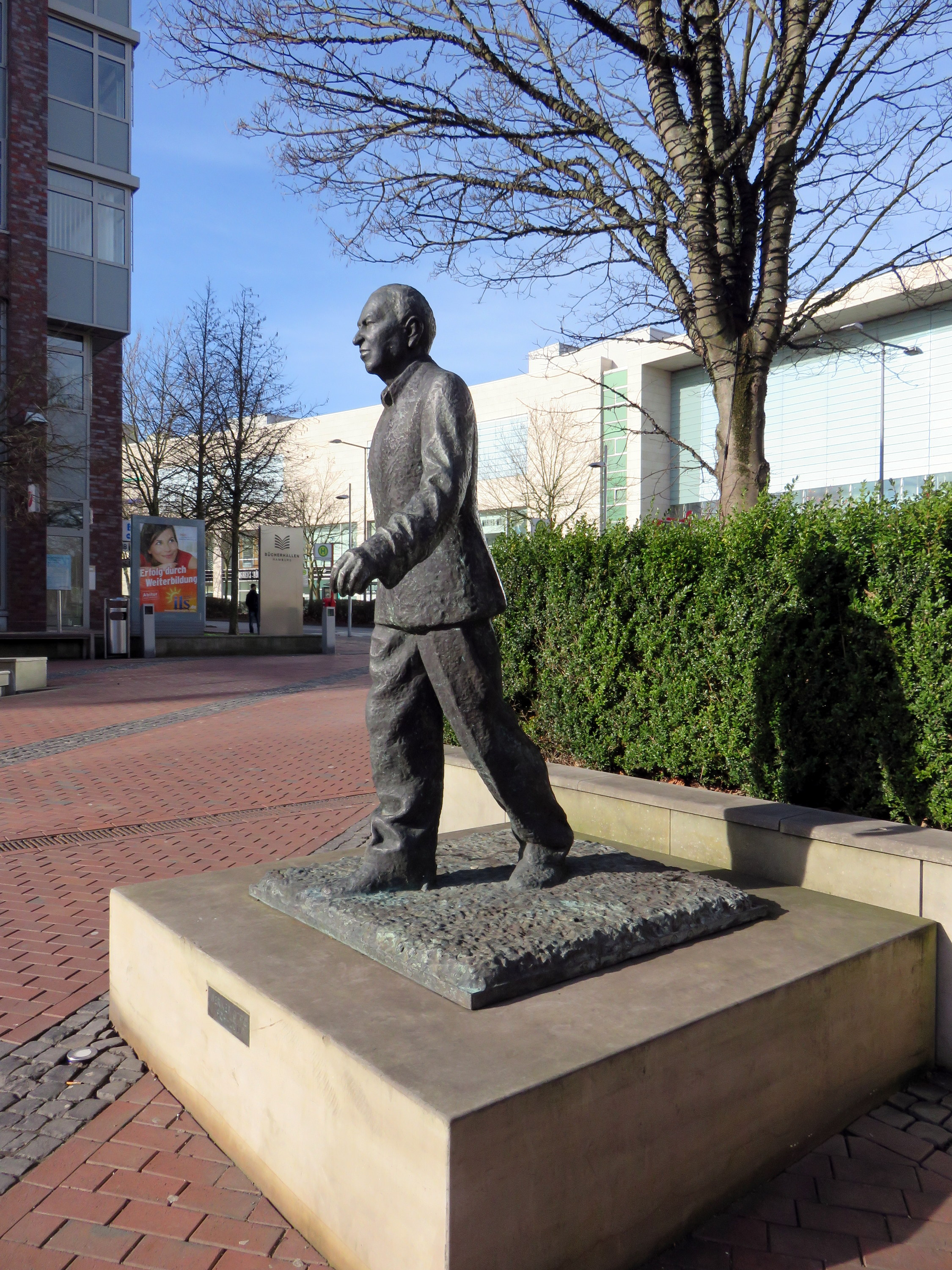 Sculpture in memory of businessman Werner Otto (1909-2011) opposite shopping mall “Alstertal-Einkaufszentrum“ in Hamburg-Poppenbüttel, created by sculptor Bernd Stöcker on the occasion of Otto's 100th birthday 2009.